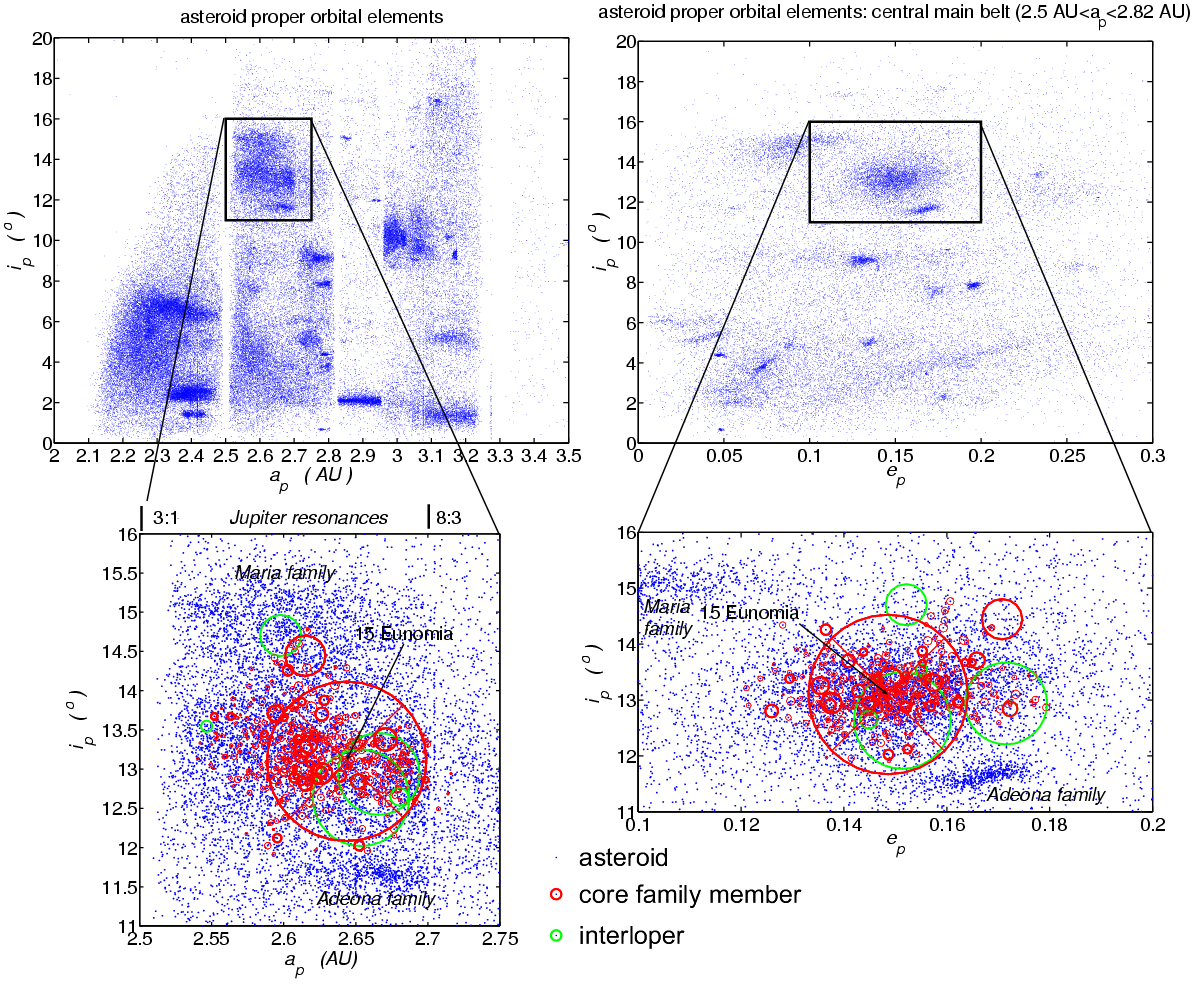 Diagrams showing the location and characteristics of the Eunomia family of asteroids. Where circles are plotted, their diameter is proportional to the mean diameter of the asteroid. In the top diagrams, the proper orbital elements are plotted (inclination ip vs. semi-major axis ap on the left, and inclination ip vs. eccentricity ep on the right) for numbered asteroids in the main belt. In the bottom enlargements, one has: core family members (shown in red) are those identified by the 1995 Zappala (V. Zappala et al, Icarus Vol. 116, p. 291 (1995)) HCM method analysis. The data set is here. interlopers (shown in green) were identified either: by the spectroscopic analysis of Lazzaro et al (Lazarro et al The Eunomia Family: A Visible Spectroscopic Survey, Icarus, Vol. 142, p. 445 (1999), and also by inspection of the PDS asteroid taxonomy data set for non S-type members of the above Zappala 1995 data-set. numbered asteroids in general (shown as small blue dots), from the AstDys database. The location of asteroids that are very large and/or explicitly named on the plot is shown by a light cross within the circle. Asteroid diameters were obtained from two sources: (thick circles): From the IRAS survey, when available (data set here). (thin circles): Otherwise, by assuming an albedo of 0.209 (same as 15 Eunomia), and estimating from absolute magnitudes from the AstOrb database here. The diagrams were created by me (Piotr Deuar) using proper element data for 96944 minor planets, which was obtained from the AstDys site. Data was dated March 2005, calculation was by Z. Knezevic and A. Milani. The top left plot is a slightly modified reduced version of :Image:Asteroid_proper_elements_i_vs_a.png.